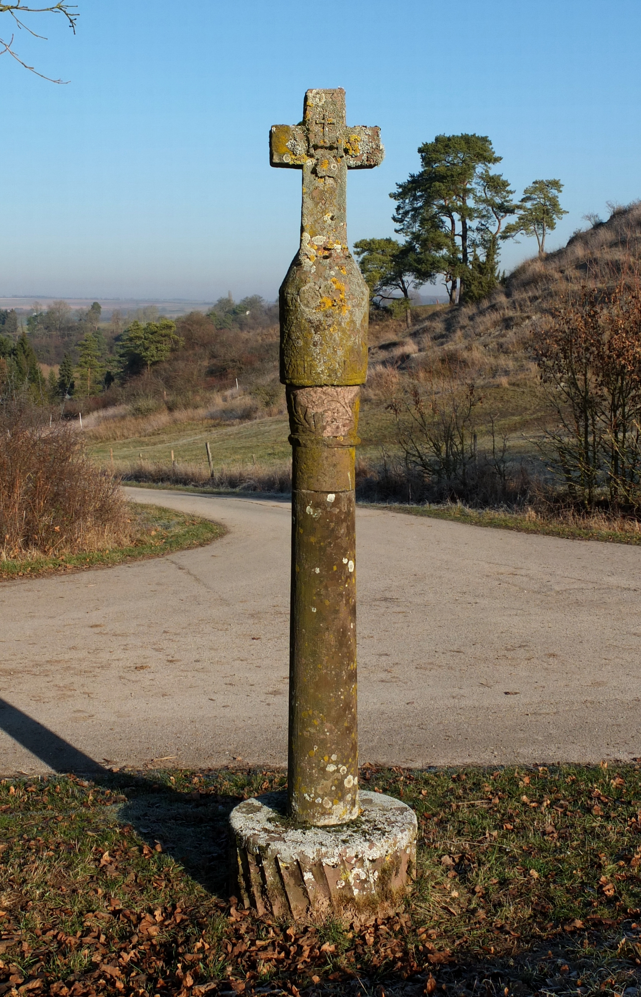 Wayide cross (1630), so-called "Hexenkreuz" or "Brautkreuz" near Brecht (Eifel), Germany. This is a photograph of an architectural monument.It is on the list of cultural monuments of Brecht (Eifel)